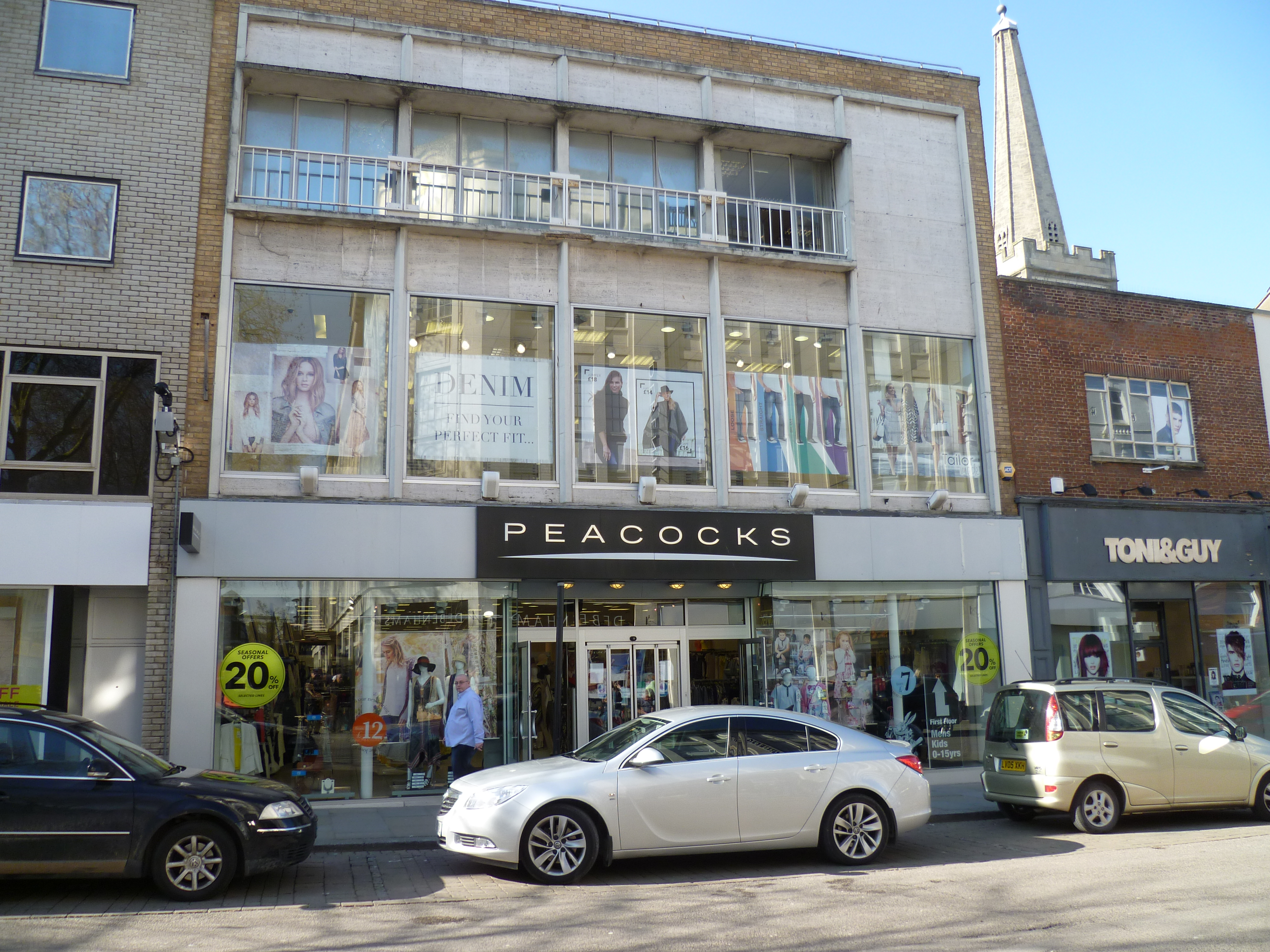 Gloucester